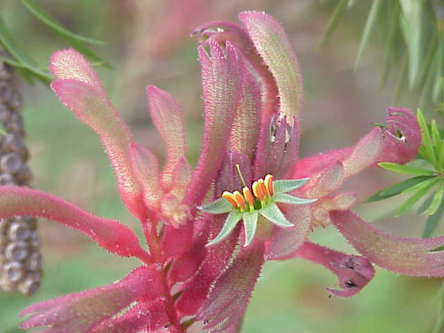 Species: Anigozanthos flavidus Family: Haemodoraceae Image No. 10